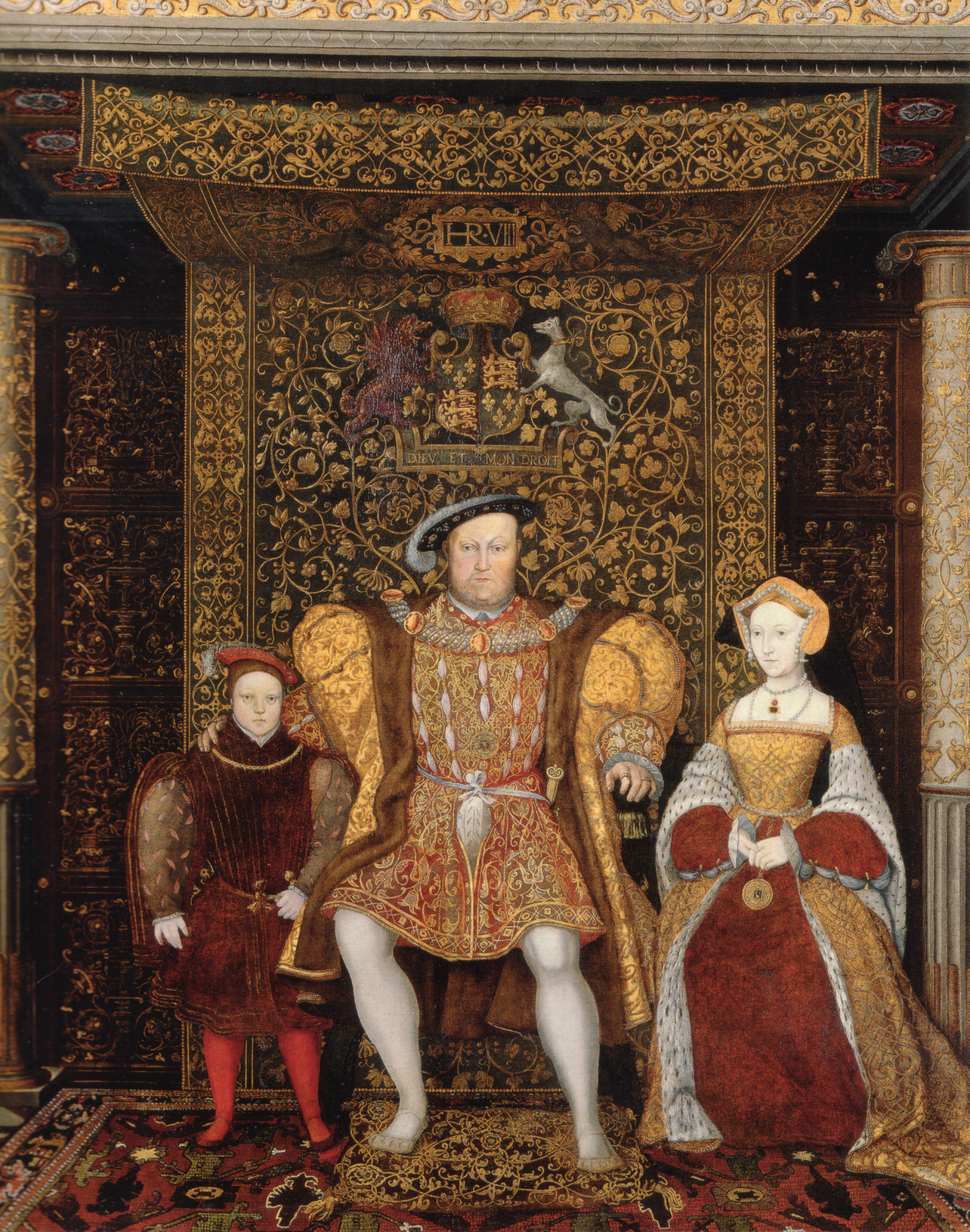 Detail of The Family of Henry VIII, now at Hampton Court Palace, c. 1545 Oil on canvas, 141 x 355 cm Left to Right: Prince Edward, Henry VIII, Jane Seymour